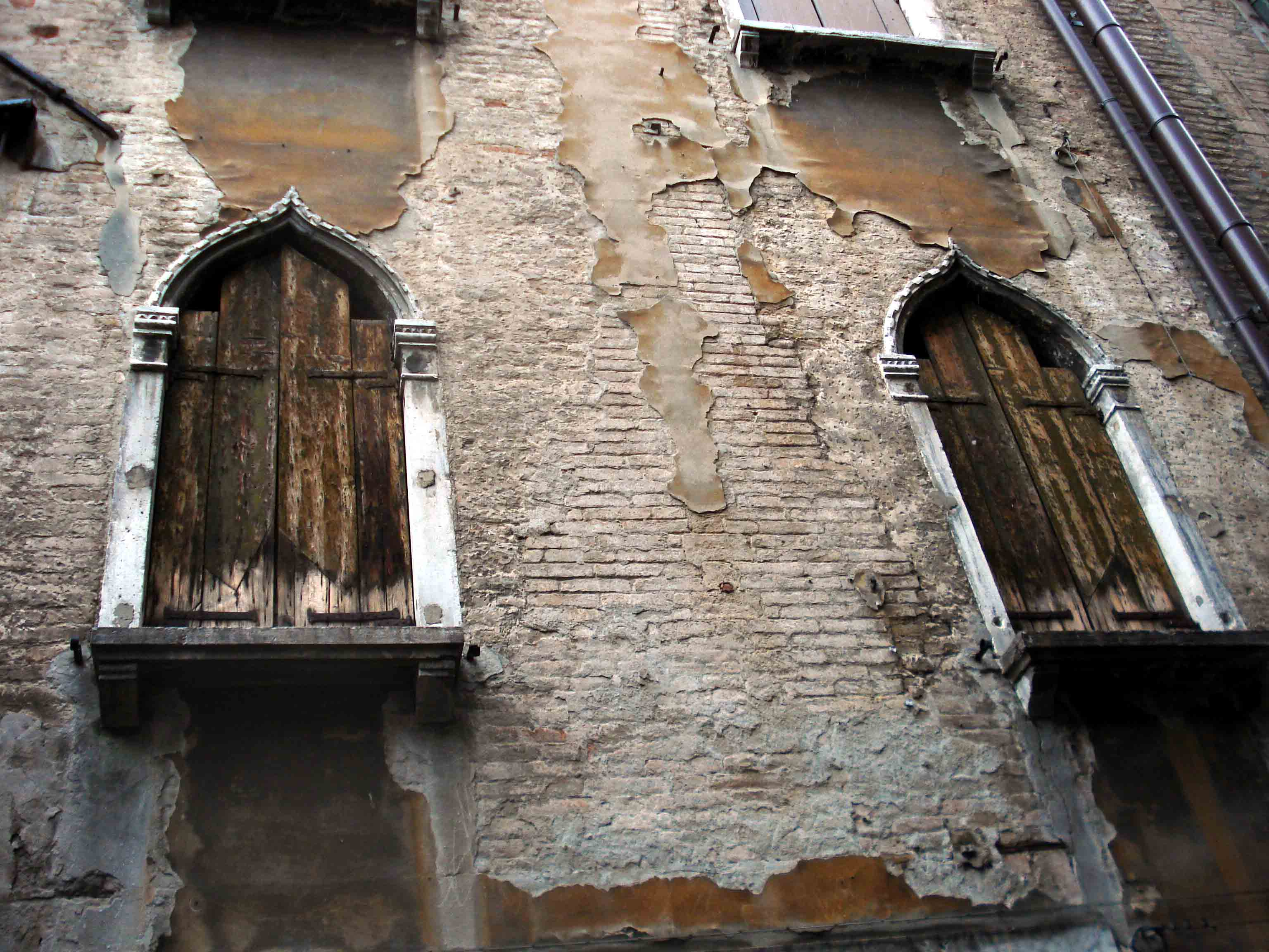 Photo of decaying wall facing canal in Venice, Italy.